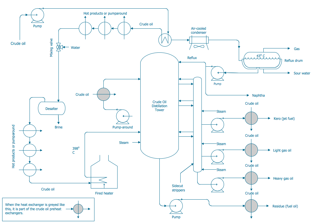 This sample demonstrates a schematic flow diagram of a typical crude oil distillation unit that is used in petroleum crude oil refineries. This diagram was created in ConceptDraw PRO using the Chemical Engineering and Pumps Libraries from the Chemical and Process Engineering" Solution.